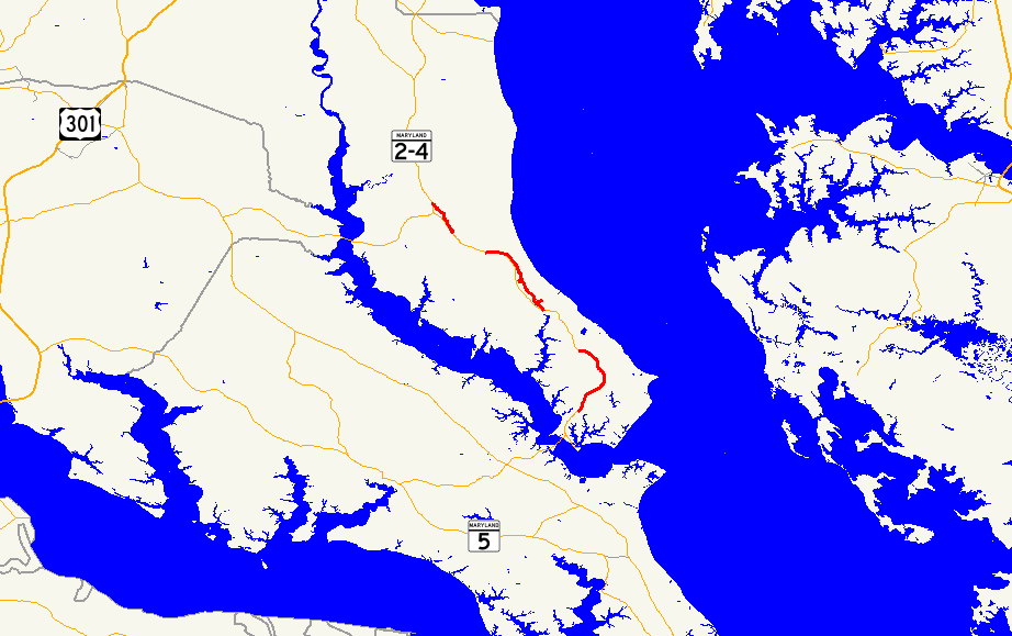 Map of Maryland Route 765